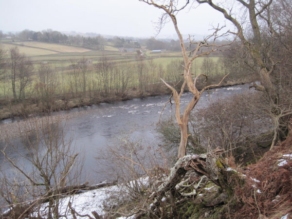 The River Tees from the Pennine Way near Dent Bank and Middleton-in-Teesdale